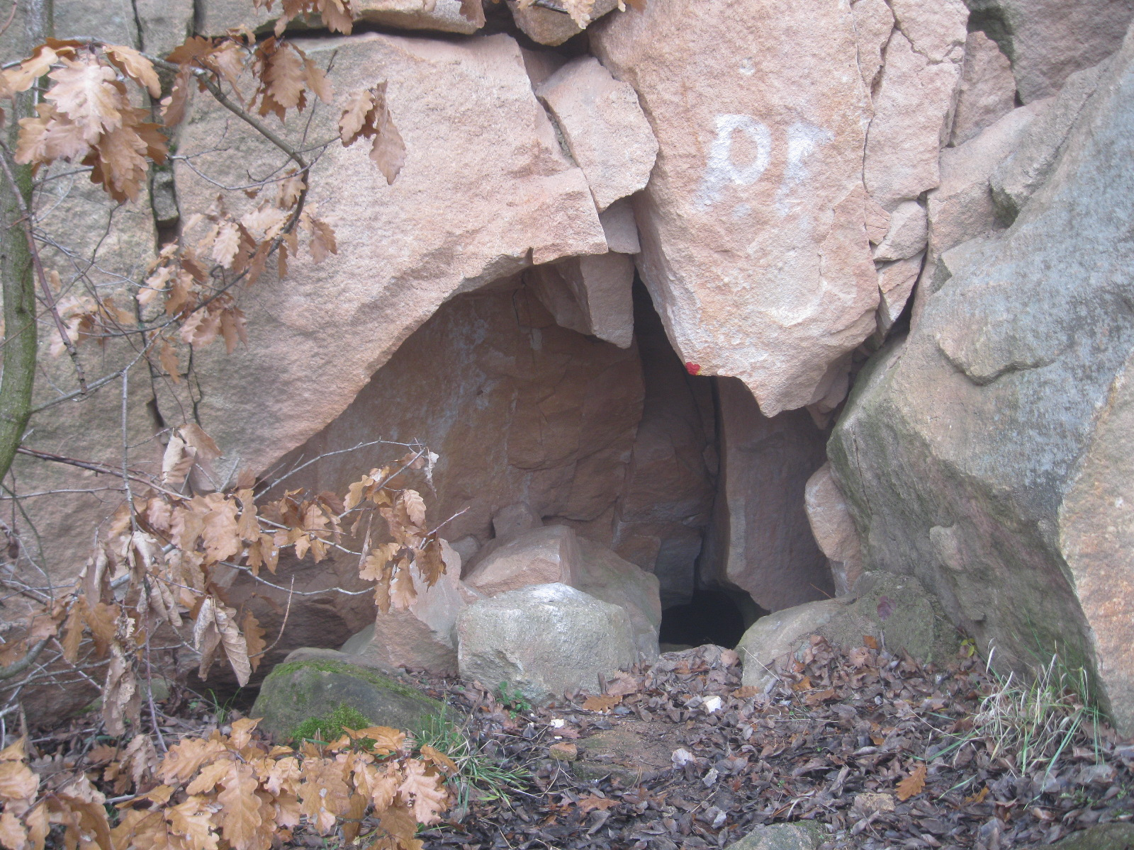 Entrance of the Papp Ferenc Cave (Hungary, Pilisborosjenő)